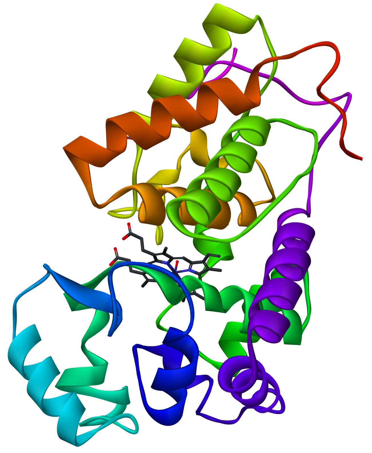 3D model of the horseradish peroxidase protein.